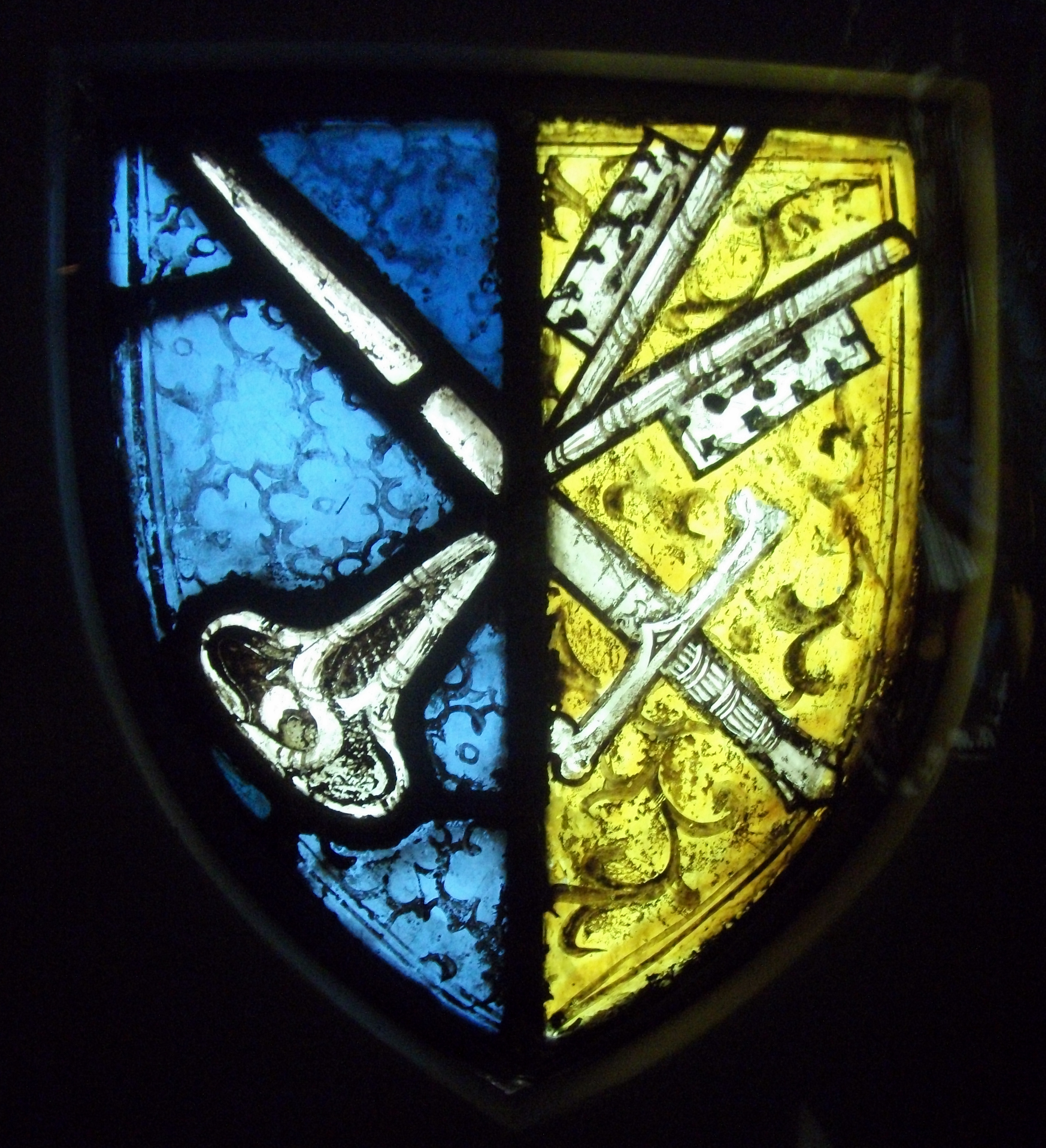 Stained glass in the Burrell Collection, the arms of Chertsey Abbey